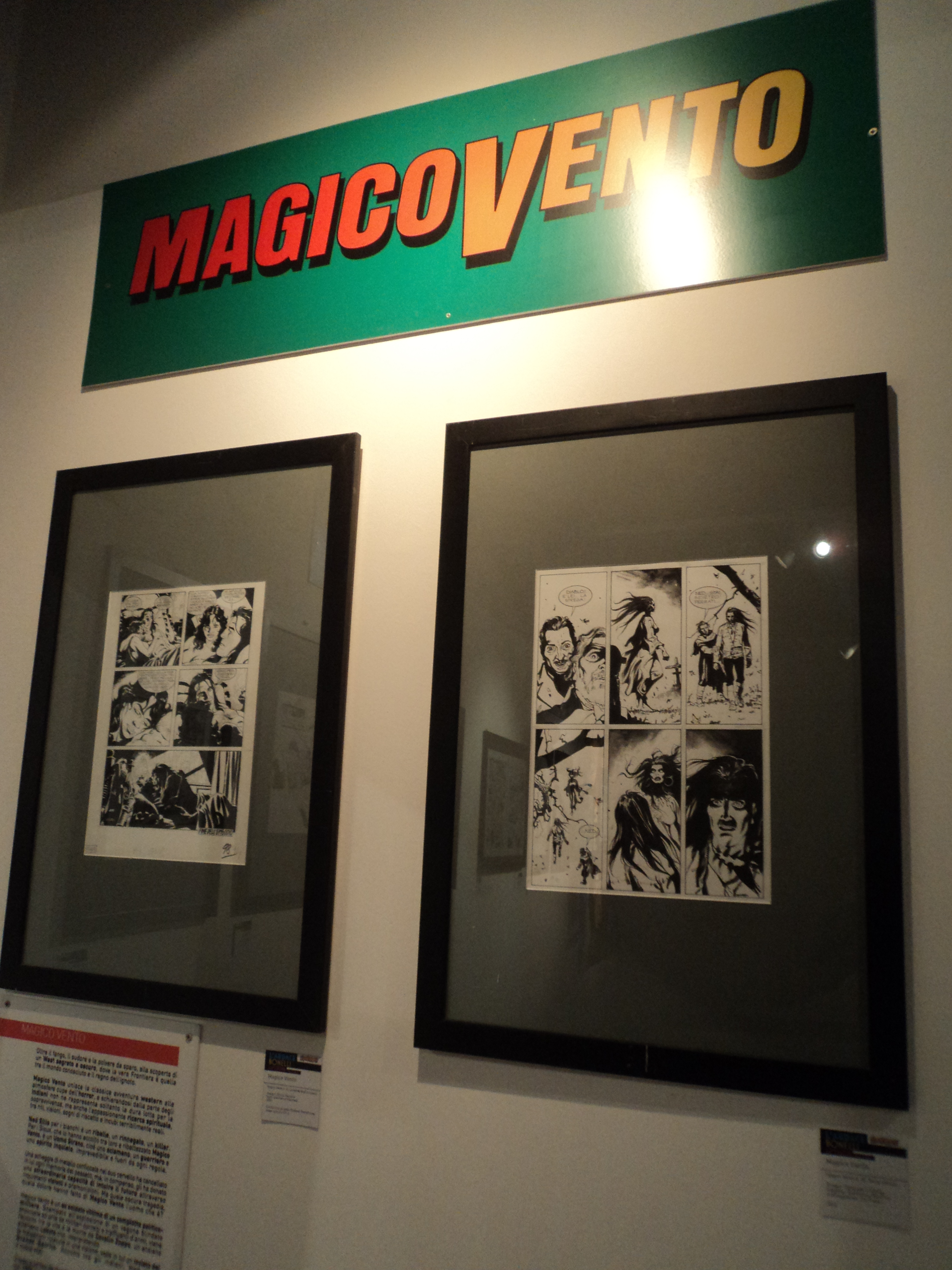 Show L'Audace Bonelli in Rome.